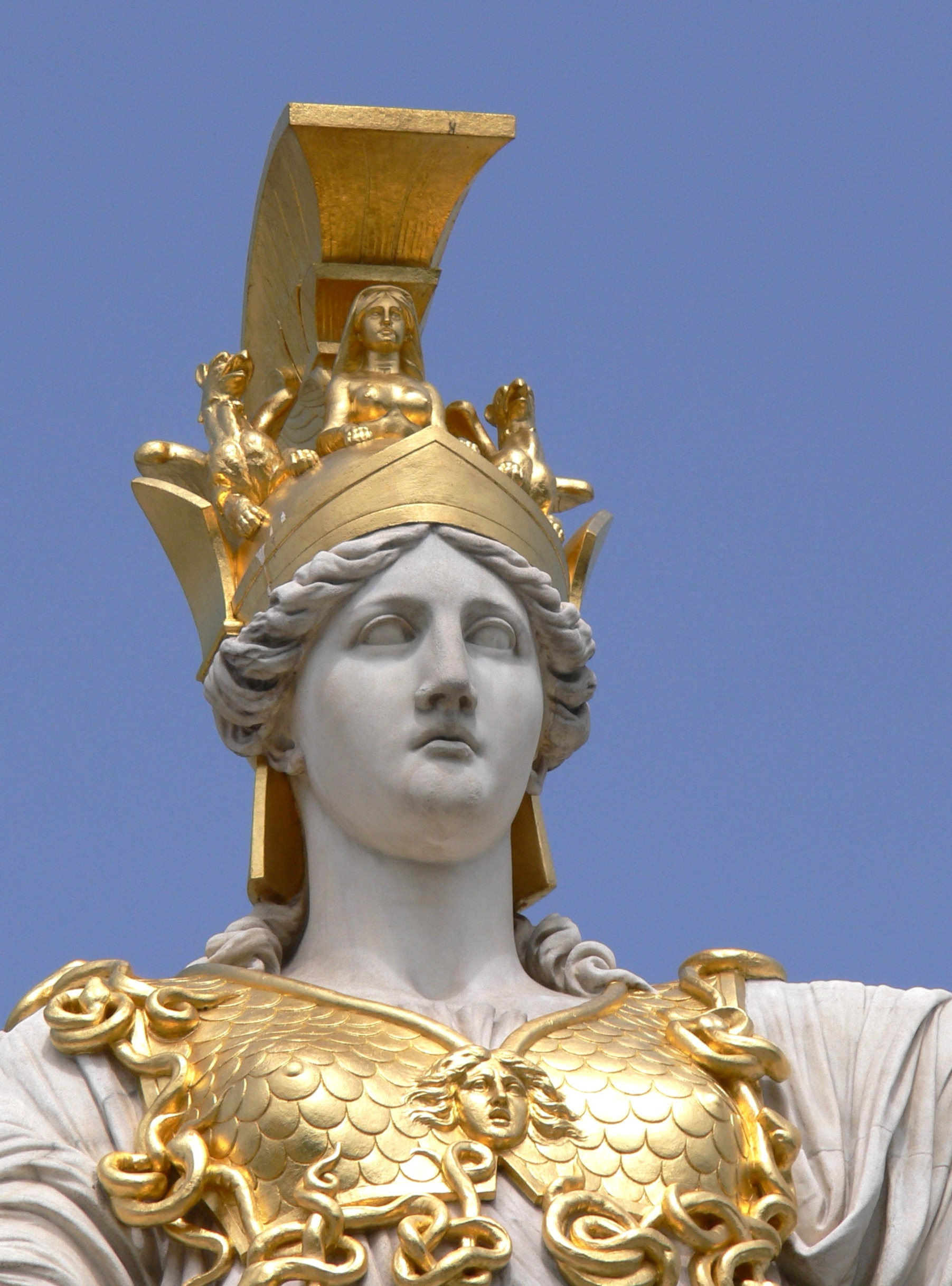 Austria, Vienna, Austrian Parliament Building